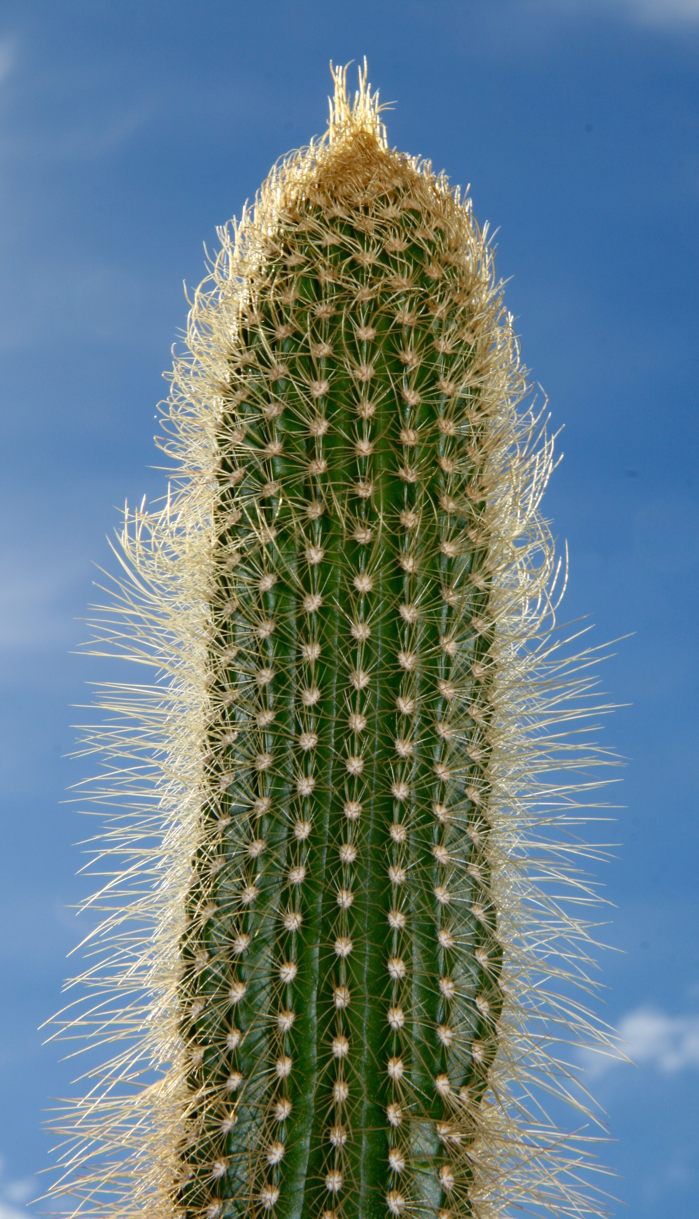 S Bahia, Brazil